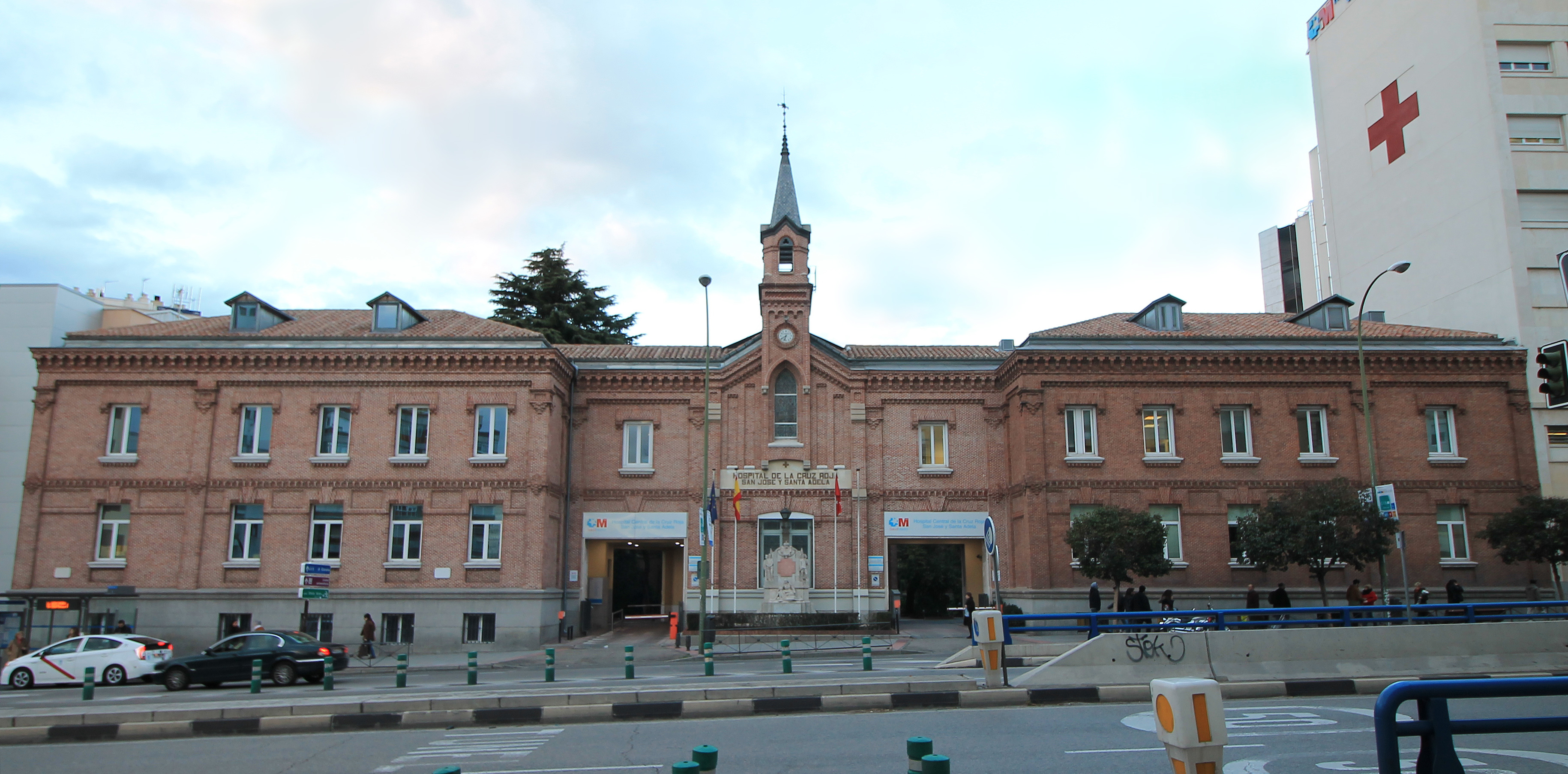 Façade of St. Joseph and St. Adele Red-Cross Hospital in Madrid (Spain).